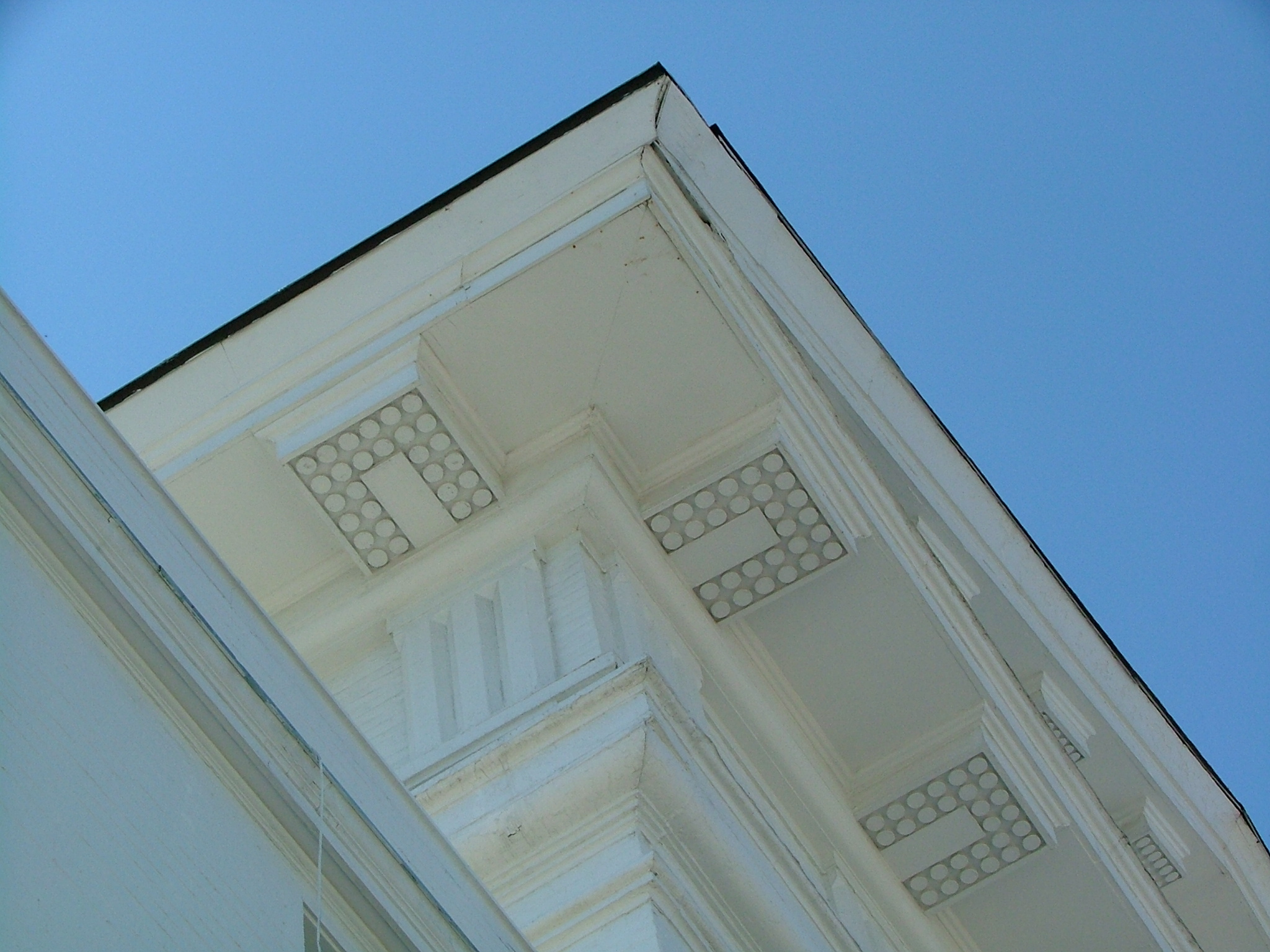 Detail of the modillions and cornice of the Madison County Courthouse, Richmond, Kentucky (USA).